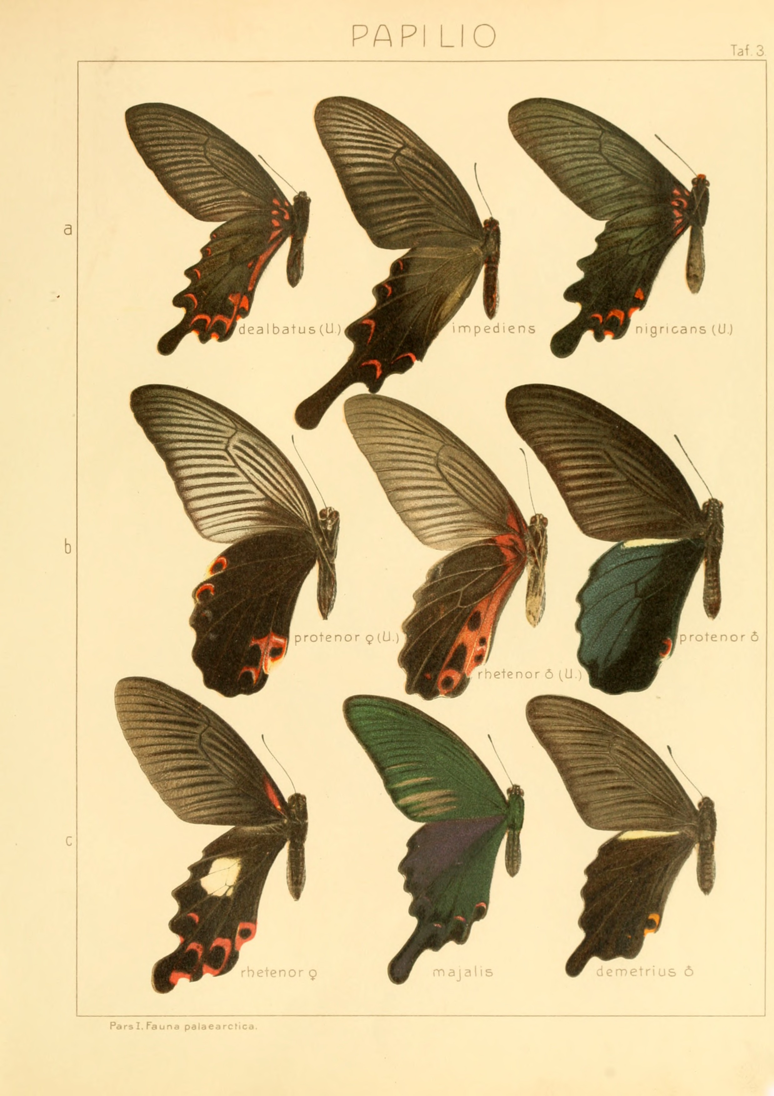 a.1.: Tailed Redbreast, underwing; a.2.: Pink-spotted Windmill, upperwing b. Papilio (Papilio) protenor Cr. = Papilio protenor protenor Cramer, [1775], ♀, underwing Papilio (Papilio) rhetenor Westw. = Papilio alcmenor alcmenor C. & R. Felder, [1864], ♂, underwing Papilio (Papilio) protenor Cr. = Papilio protenor protenor Cramer, [1775], ♂, upperwing